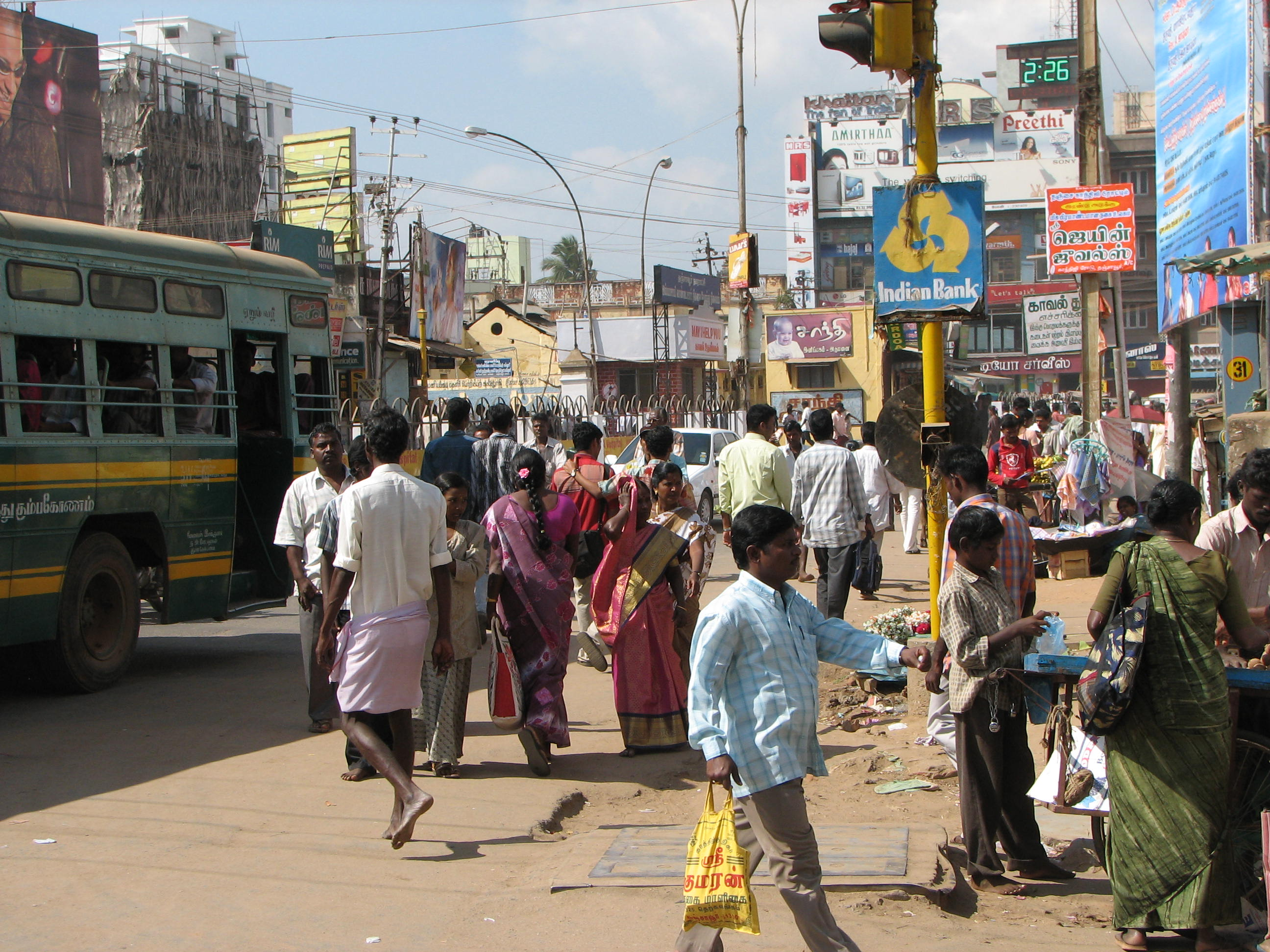 Thanjavur, India